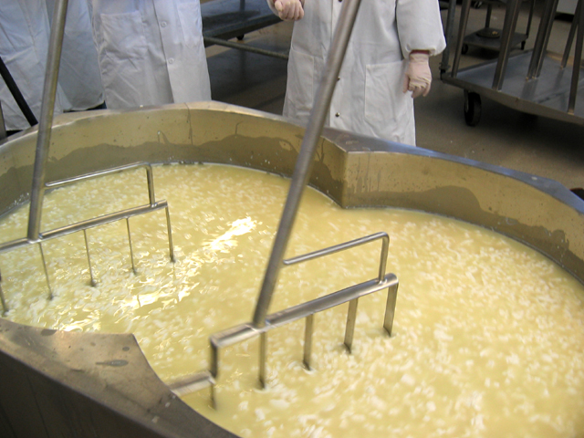 Cooking of curds during chedder manufacture